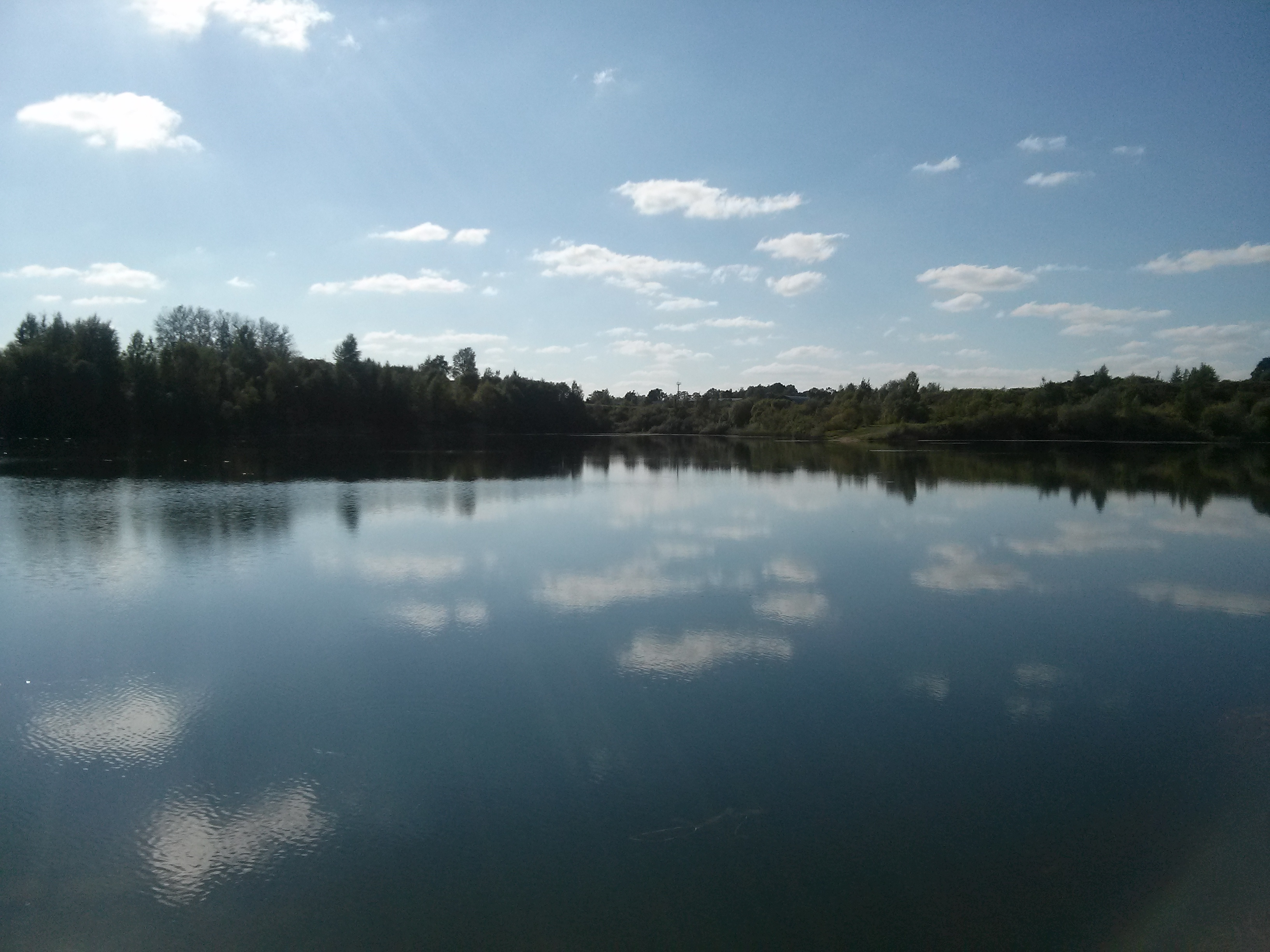 Lauciņu dolomite quarry lake in Cesis, Latvia.